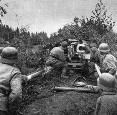 A Finnish Pak anti-tank cannon in firing positions on Karelian Isthmus in 1944.